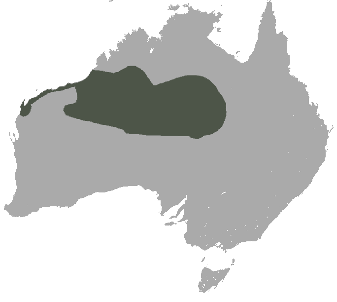 Lesser Hairy-footed Dunnart (Sminthopsis youngsoni) range